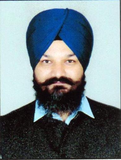 Dr. Kuldip Singh Dhillon is the InCharge of the Department since 2017.